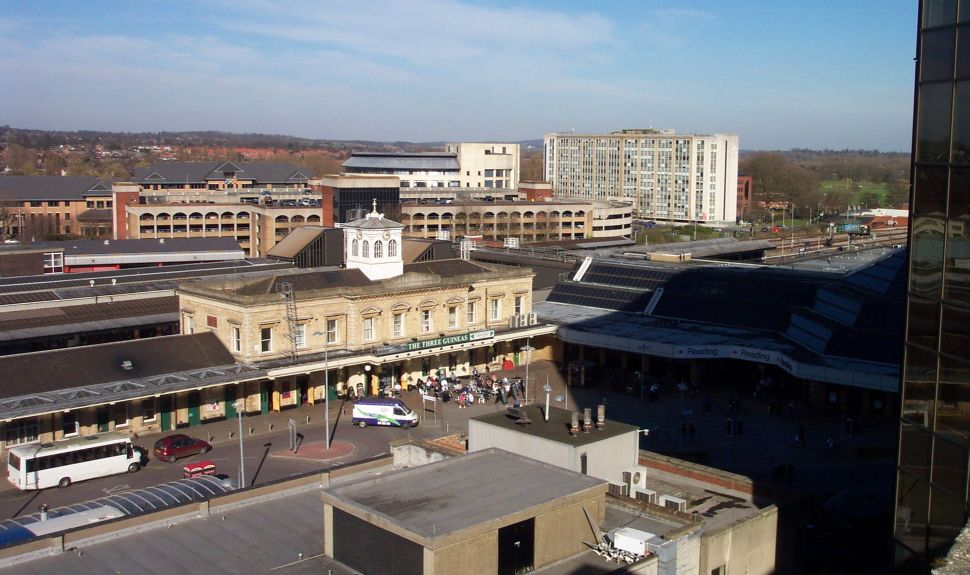 Reading railway station frontage, showing both the old (1860s) and new station buildings. Update (April 2020): Much of this has changed since the photo was taken, with a substantial new cross-track structure to the left of the old station building, meaning that it is no longer sensible to refer to what I called in my original comment as the 'new station buildings' by that name. The street in front of the old station building has been pedestrianised in the form of the new station square, whilst that to the left has been cut back to ground level. The building whose roof is seen in the foreground has been demolished. The car park from which the shot was taken is doomed too, with a new development to follow.